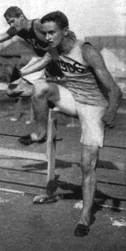 Lesley Ashburner, athlet, medalwinner at the 1904 Olympic Games photography, adapted reproduction, no restrictions on use Copyright: free of charges